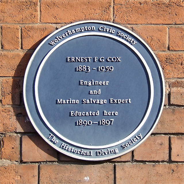 Ernest Frank Guelph Cox, Wolverhampton Ernest Cox was responsible for finding many of the ships from the German High Seas Fleet that were scuttled in Scapa Flow on 17th June 1919. Out of the 74 ships that were interned at Scapa Flow, 51 were sunk and 43 of them subsequently raised. Only 8 still remain. The total weight of the ships that were sunk was over 400,000 tons. The largest salvage operation in history was soon underway and the Scapa Flow Salvage and Shipbreaking Company was formed in 1923, to raise some of the torpedo boats. Over the next 8 years he undertook a massive operation to raise the ships. It was to become one of the greatest feats of marine salvage ever accomplished. He purchased and modified an old German floating dry dock and lifted 26 torpedo boats, and broke them up for scrap in between August 1924 and April 1926. ...and there's more where that came from!! The text by Ian Jukes is copied from this superb account of his life .